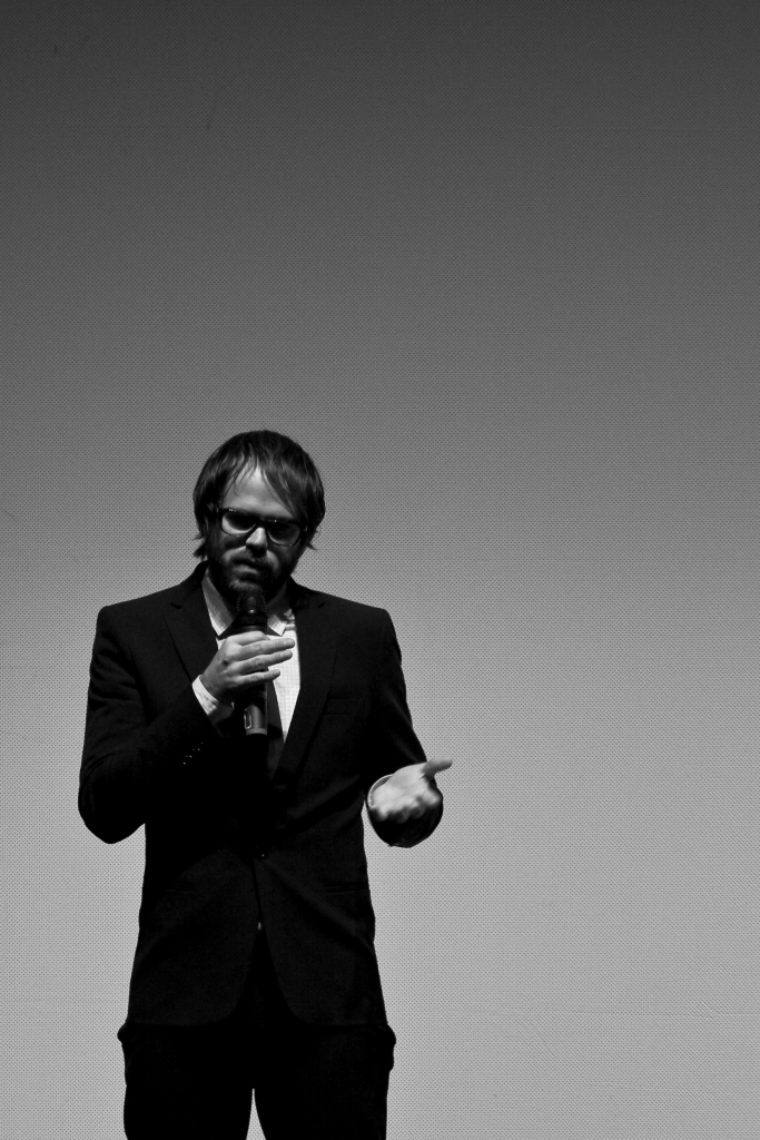 At the premiere of "Martha Marcy May Marlene", directed by Sean Durkin, during the Toronto International Film Festival, 2011.